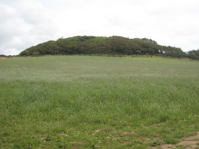 Lesingey Round. Also known as Castle Horneck, this is an Iron Age hill fort.